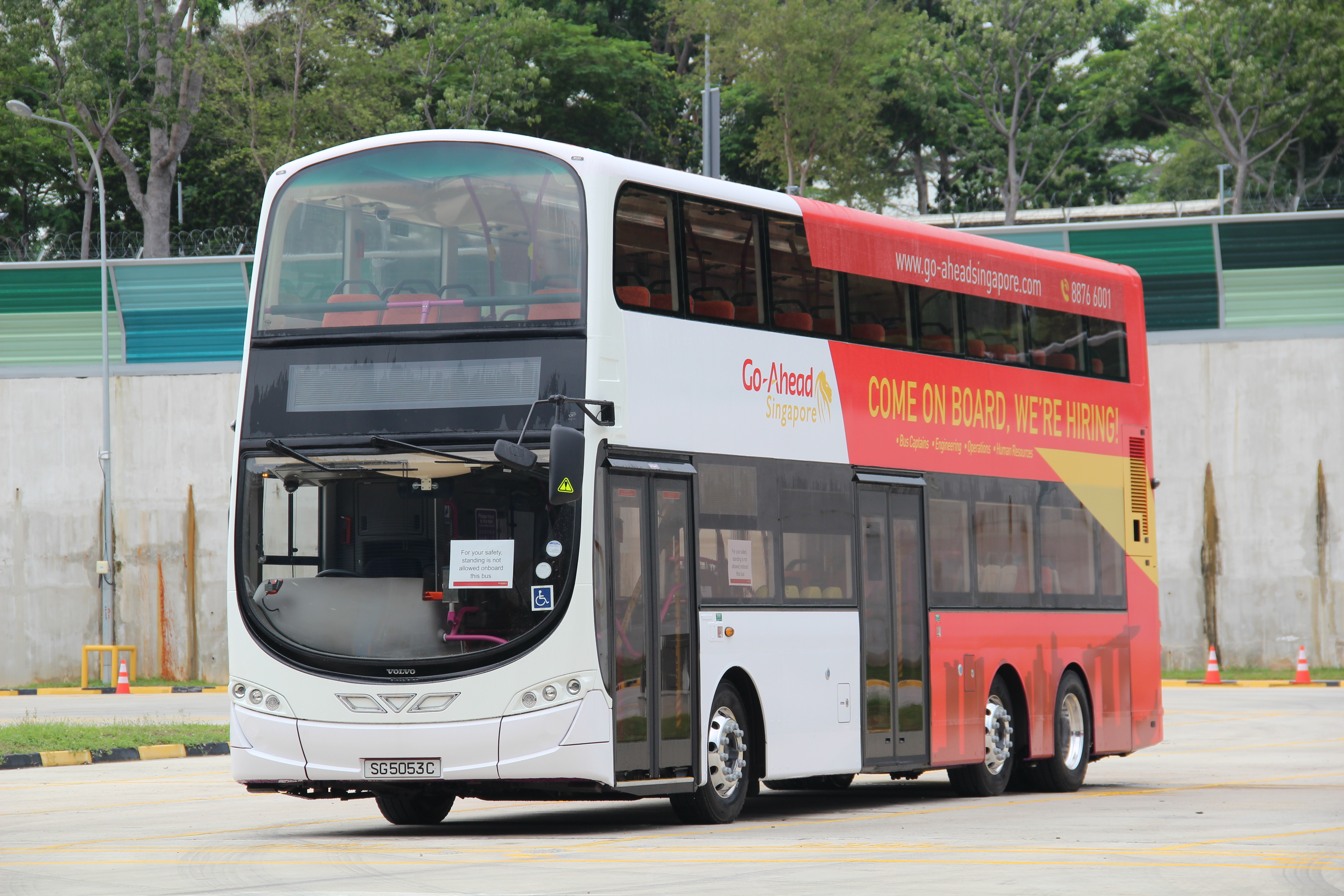 A Go-Ahead Volvo B9TL at the Loyang Bus Carnival